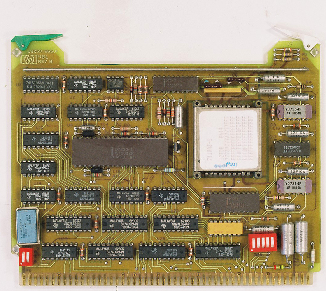 HP Bubble Memory PCB for HP9000/200 machines (DIO bus).